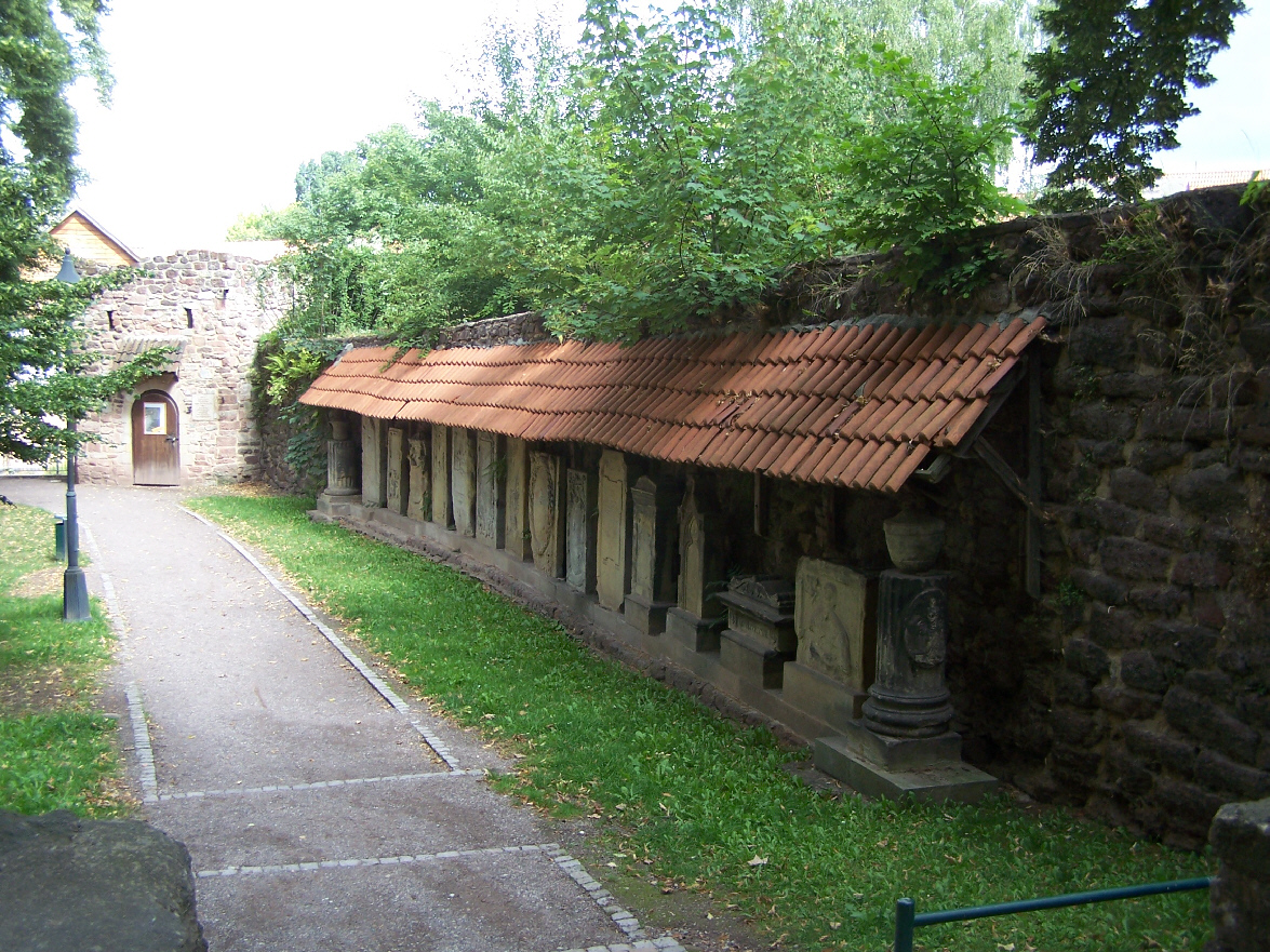 A collection of interesting thumbstones in the old graveyard.